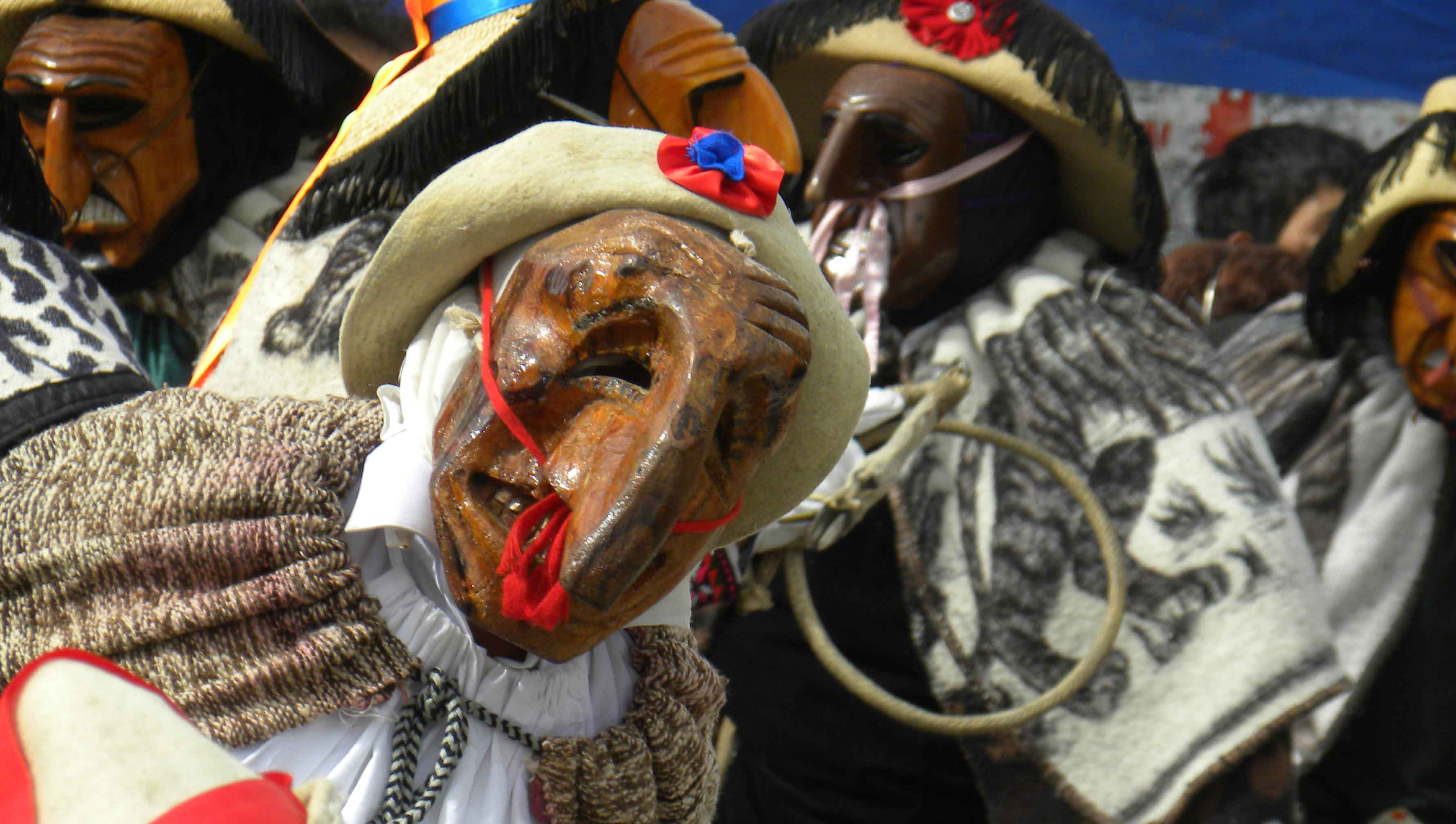 Huaconada is a ritual dance Wanka - Mito - Peru